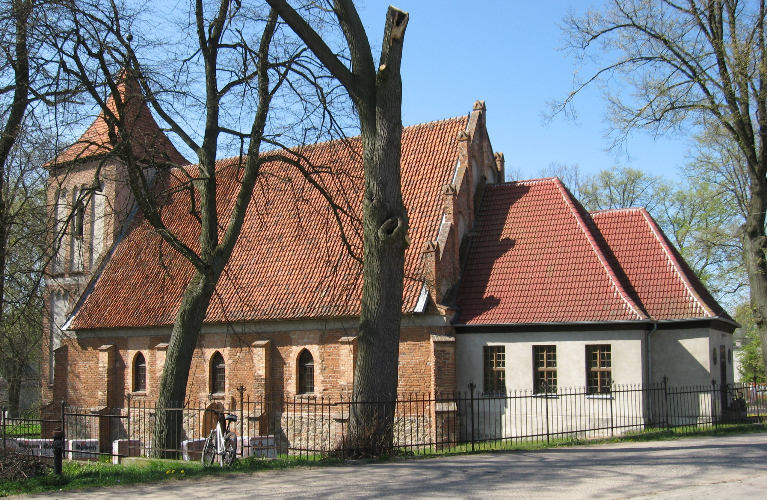 Church in Narzym